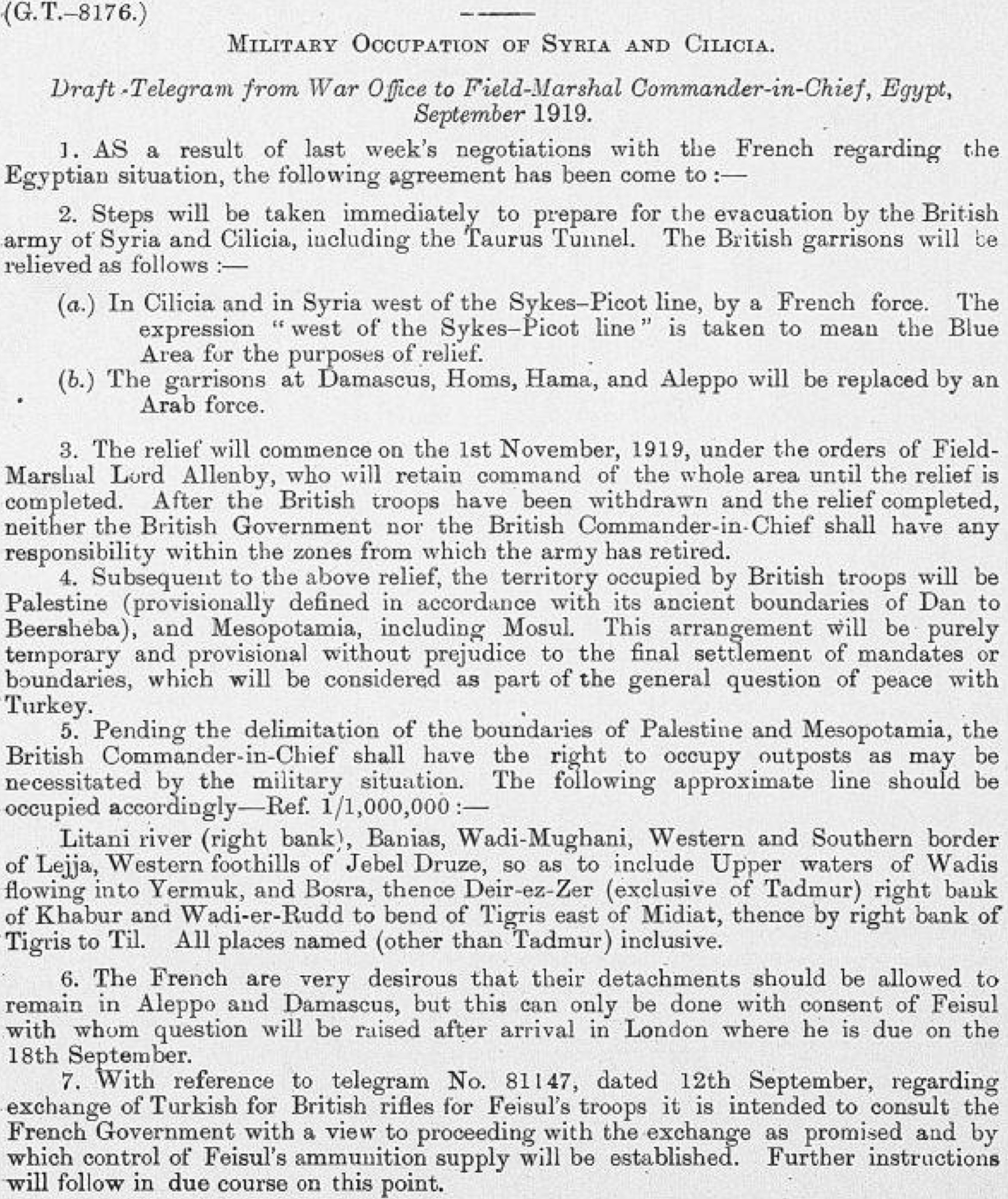 Draft Telegram September 1919 ordering the withdrawal of British troops from the French and Arab areas of the Occupied Enemy Territory Administration See also discussion of this draft telegram at CAB 23/44b (page 131 onwards): Secretary's notes of a Cabinet Committee Meeting held in the Secretarys of State's Room, Foreign Office, on Monday, 22nd September 1919 at 11.30 a.m. appointed to consider the question of the temporary and provisional line in Palestine and Mesopotamia behind which the British Troops are to be withdrawn.